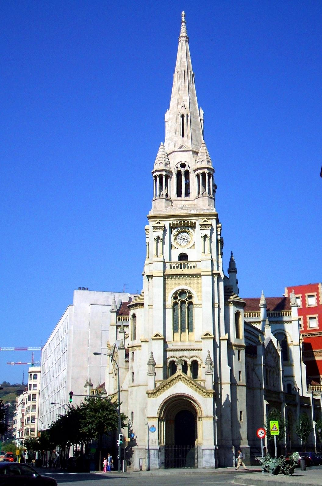 Iglesia de San José de la Montaña (José María Basterra, 1918), en Bilbao (Vizcaya, País Vasco, España)